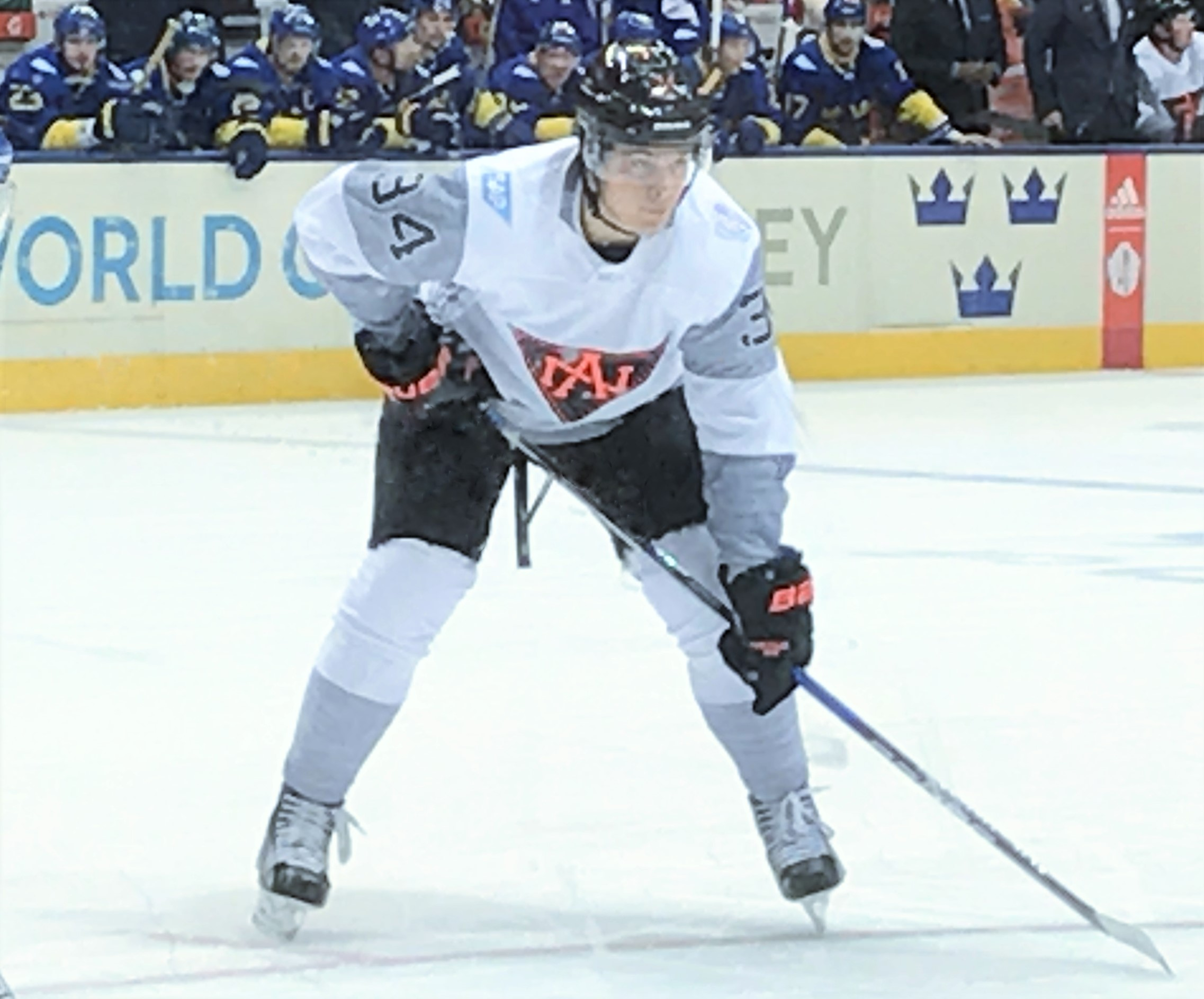 Auston Matthews at the World Cup of Hockey